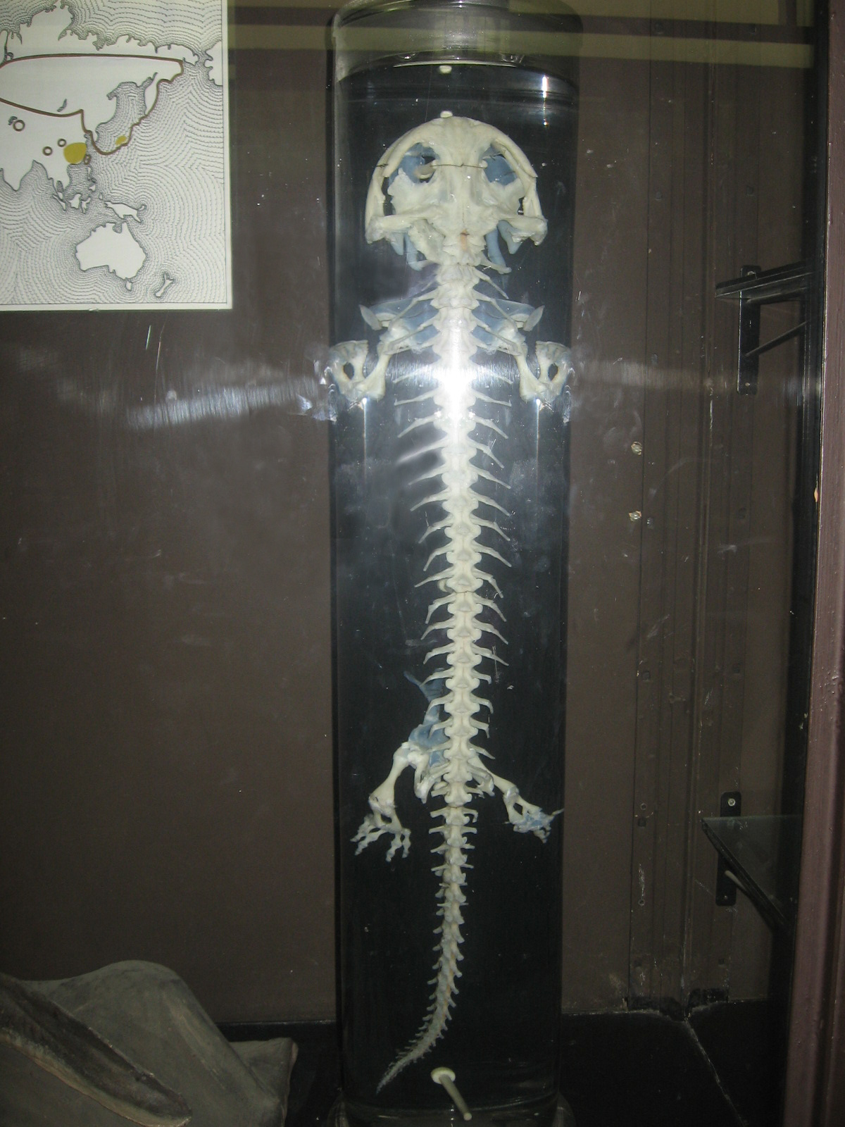 Skeleton of Chinese giant salamander. Moscow zoological museum